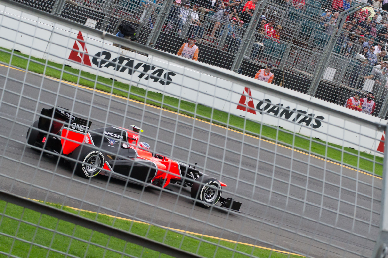 Pic during Friday practice at 2012 Australian GRand Prix